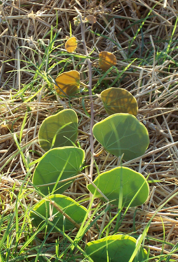 Tylosema esculentum plant, prior to blooming.